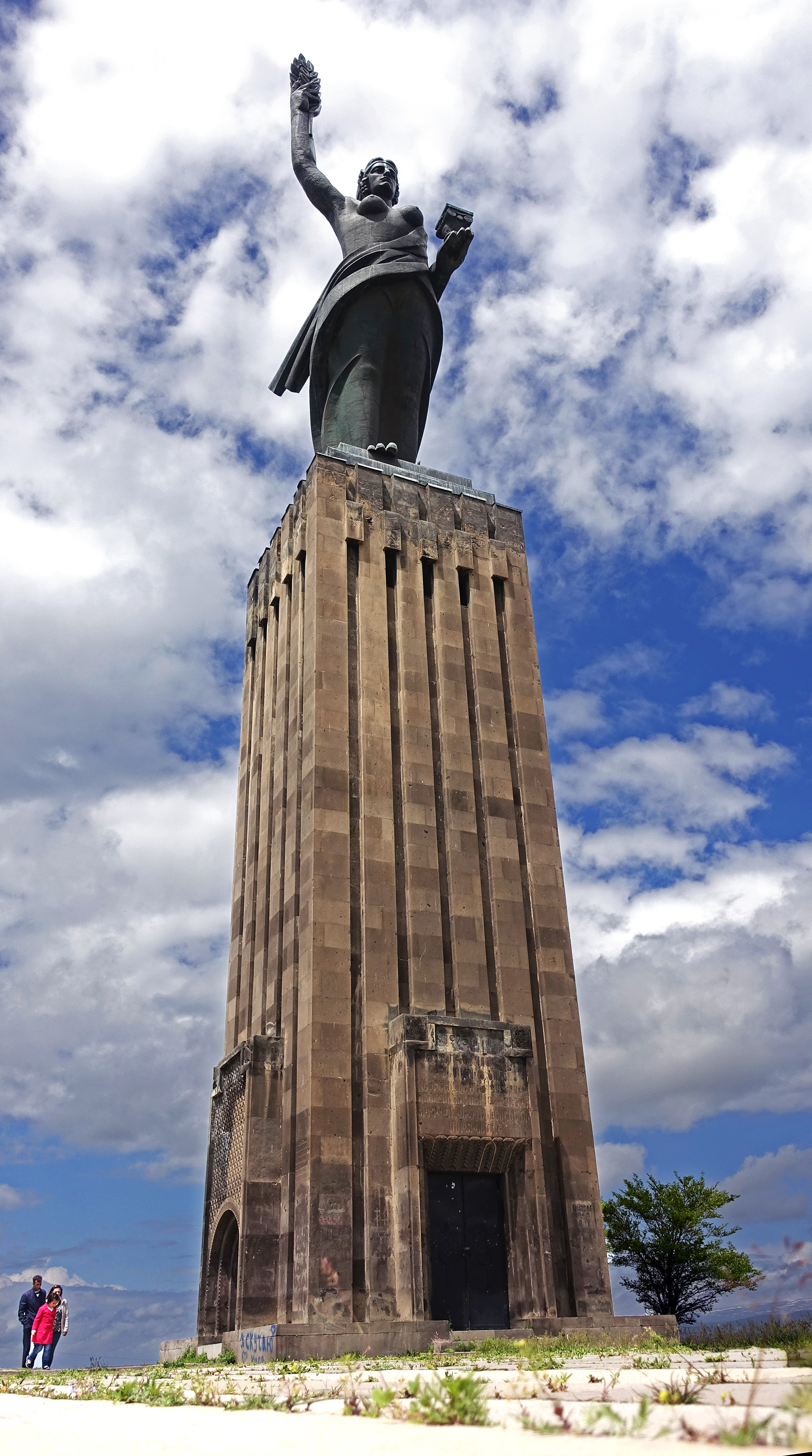 Mother Armenia statue in Gyumri, Armenia. 1/20